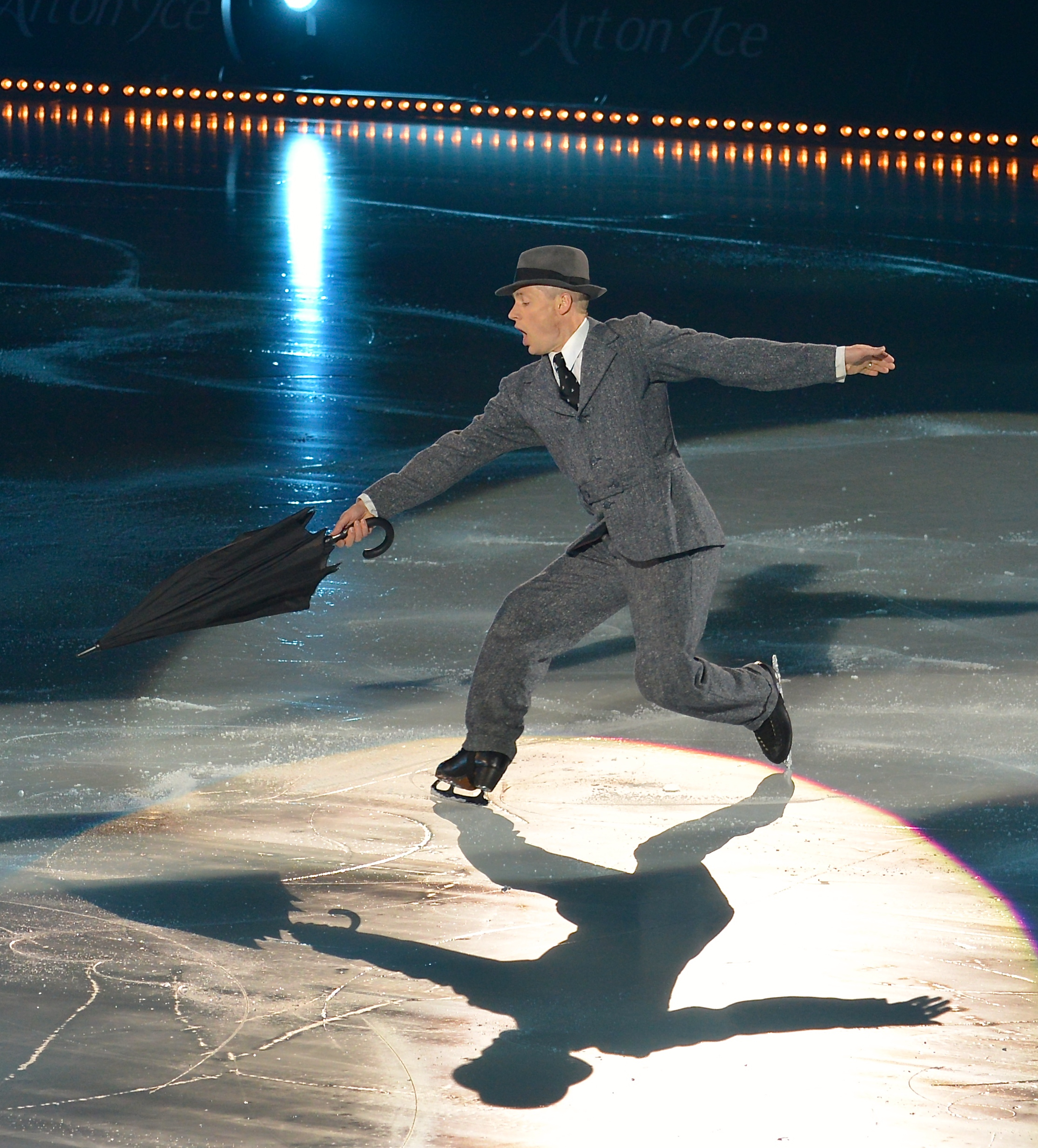 Kurt Browning in "Singing in the Rain" in "Art on Ice" at the Globe Arena in Stockholm, March 13, 2014.